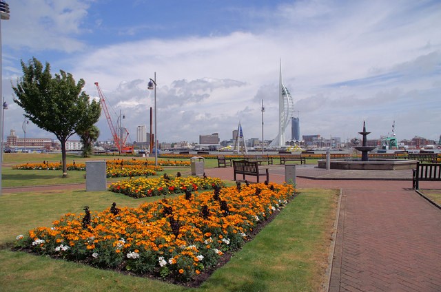 Falkland Gardens, Gosport View towards the Spinnaker Tower from near Gosport Ferry pier.